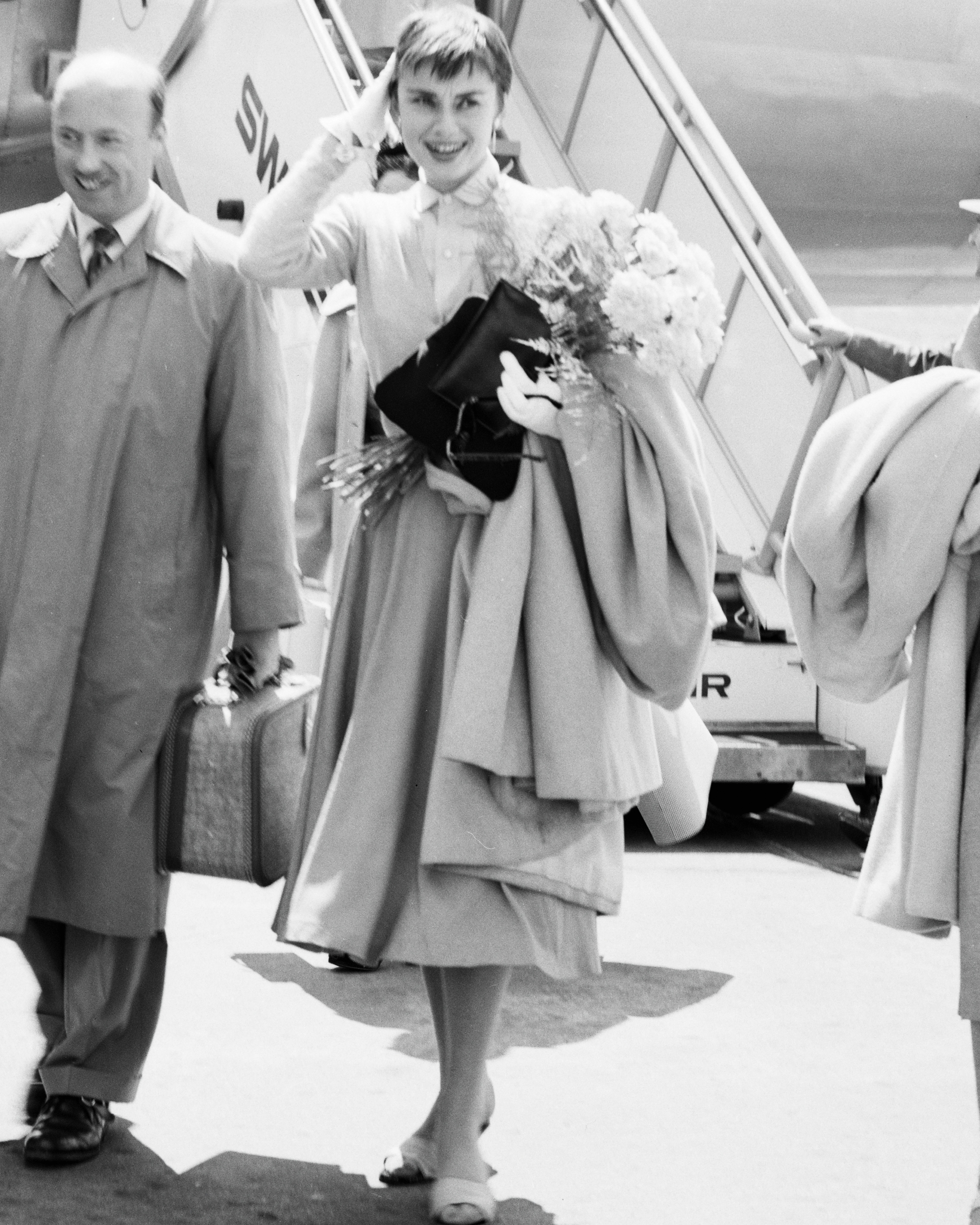 Audrey Hepburn, Douglas DC-7C-1229 C Seven Seas, Swissair